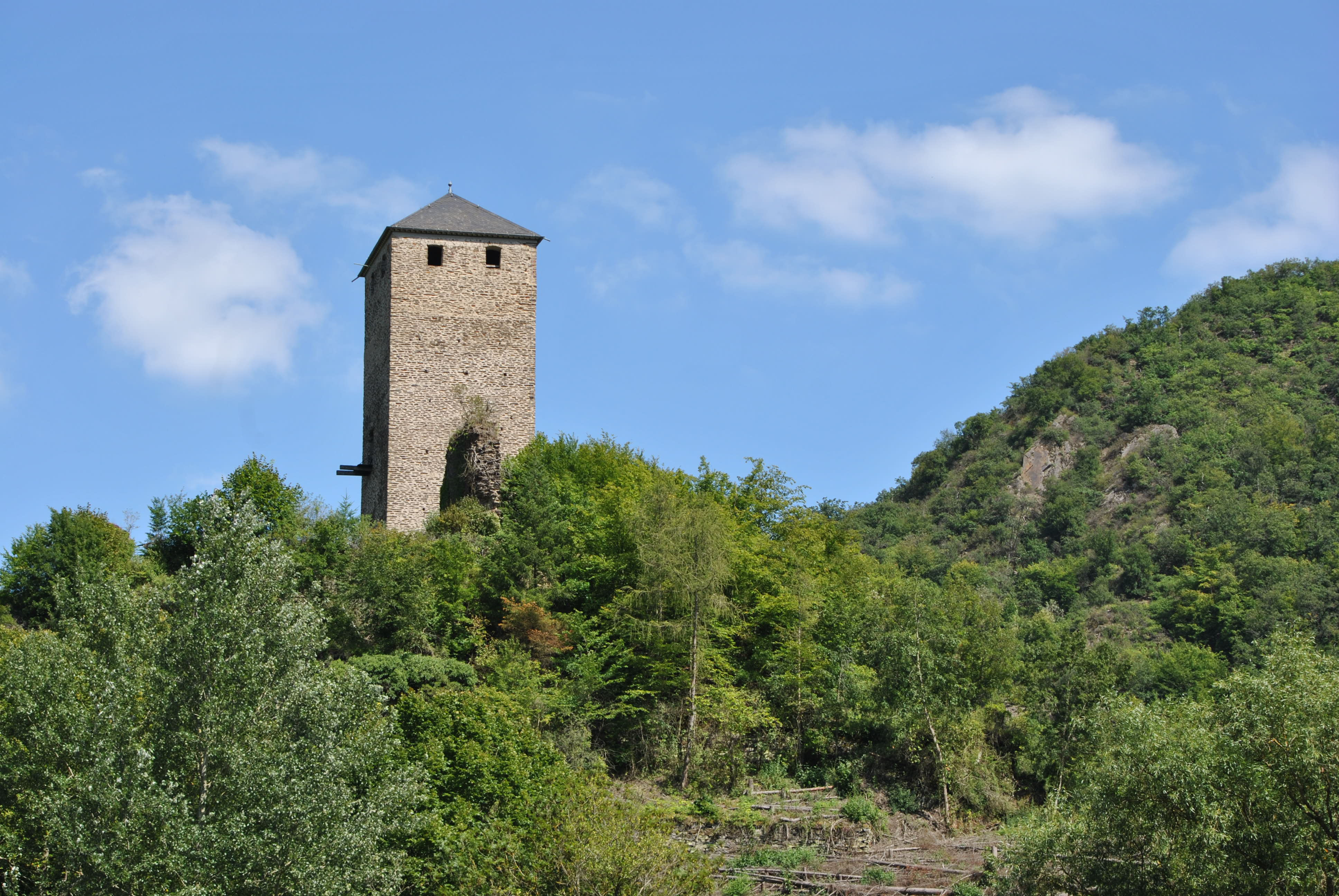 This photograph was taken with a Nikon D3000 This is a photograph of an architectural monument. Treis-Karden, Burg Treis